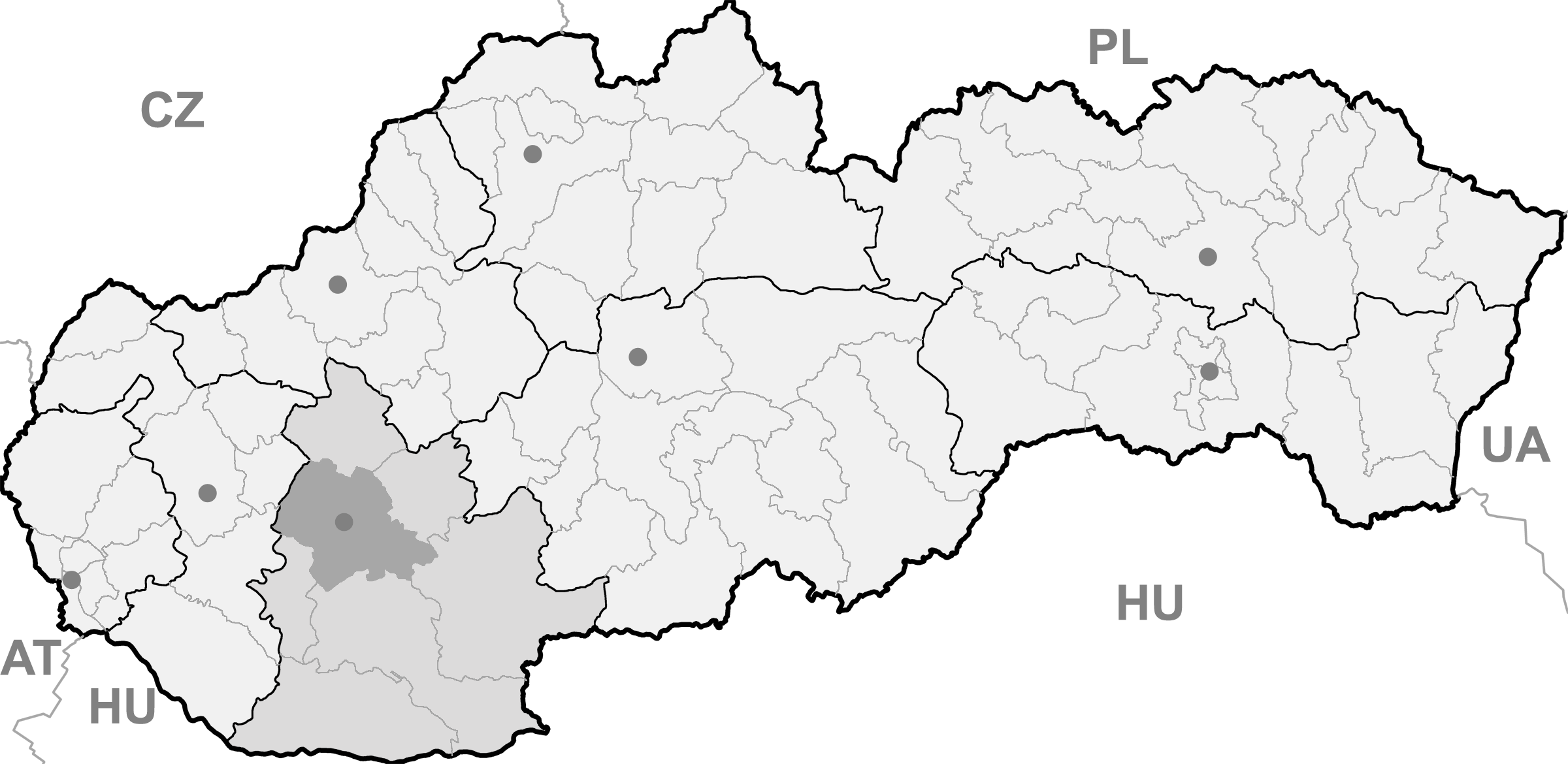 Map of Slovakia, Nitra district and Nitra region highlighted